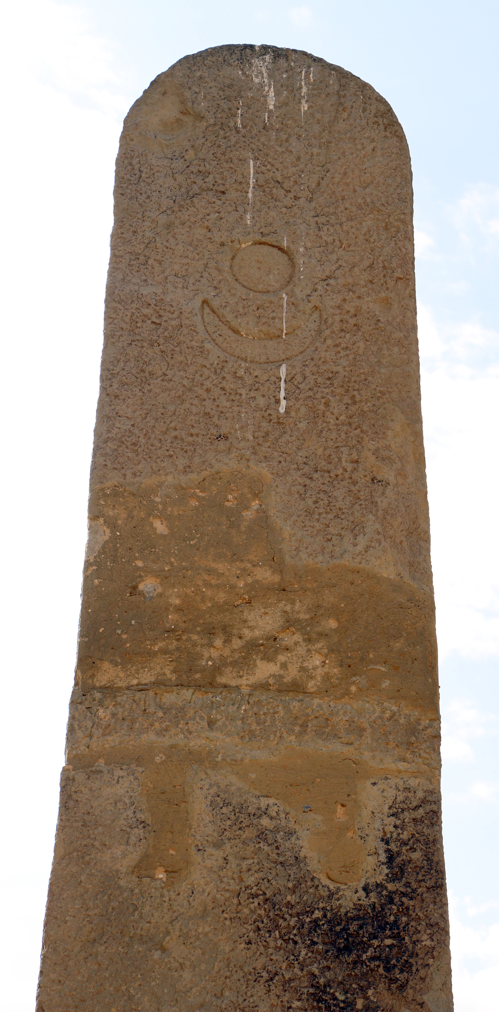 Balaw Kalaw - Menhir